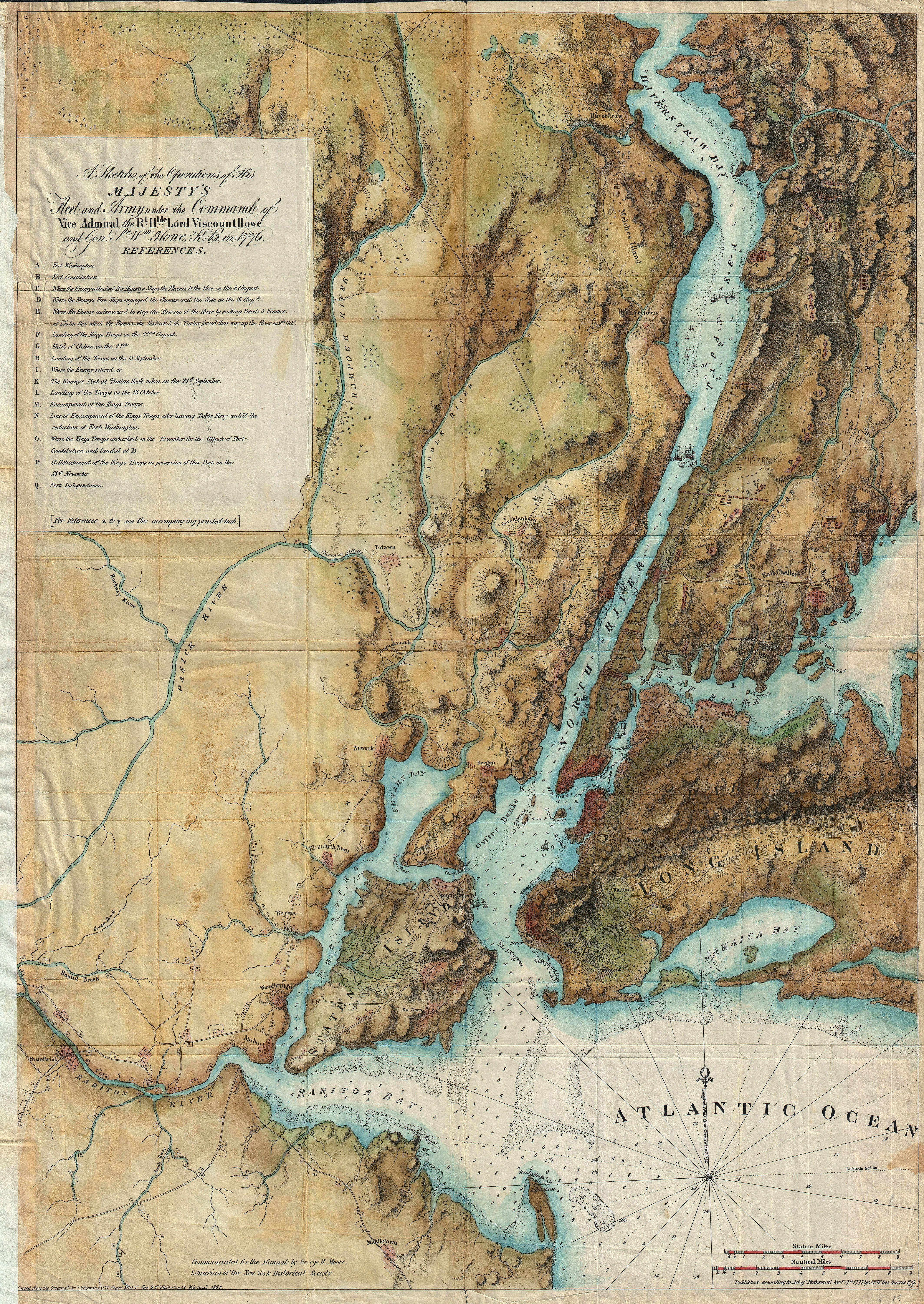 A rare and stunning reissue of the Des Barres famous 1777 Map of New York City and Harbor prepared for the 1864 issue of Valentine’s Manual of New York. Covers from Sandy Hook northward as far as Haverstraw and the Croton River. Includes Staten Island, all of Manhattan, much of northeastern New Jersey, and Long Island as far east as Jamaica. This stunning map was originally drawn by Joseph Des Barres to illustrate British troop movements during the American Revolutionary War. Wonderful topographic detail of the entire region with depth soundings through the harbor. With the original Des Barres map all but unobtainable, this is a rare opportunity to acquire a 19th century example of this spectacular map.